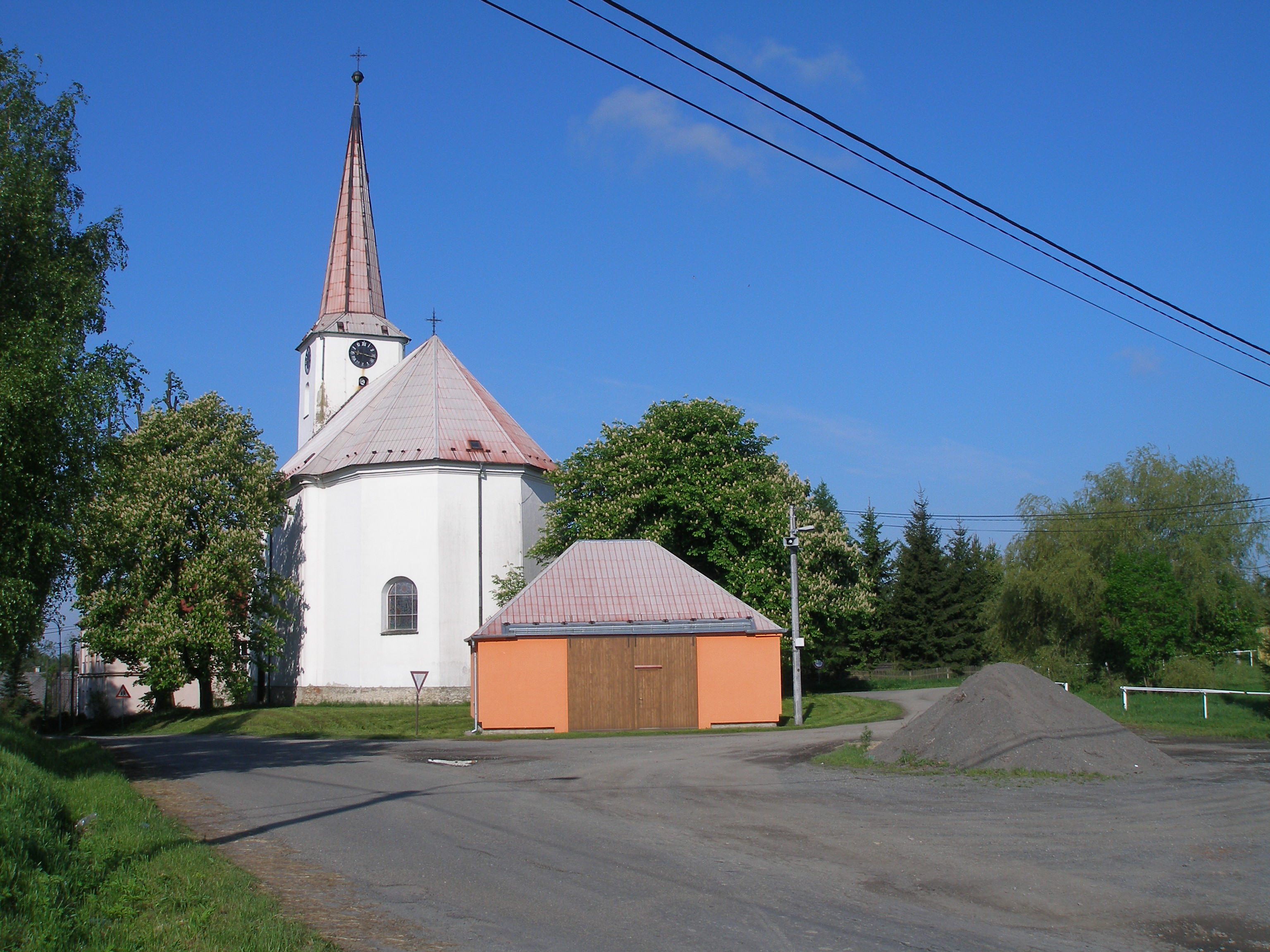 Eastern view of SS Peter and Paul church in Hraničné Petrovice, Olomouc District, Czech Republic